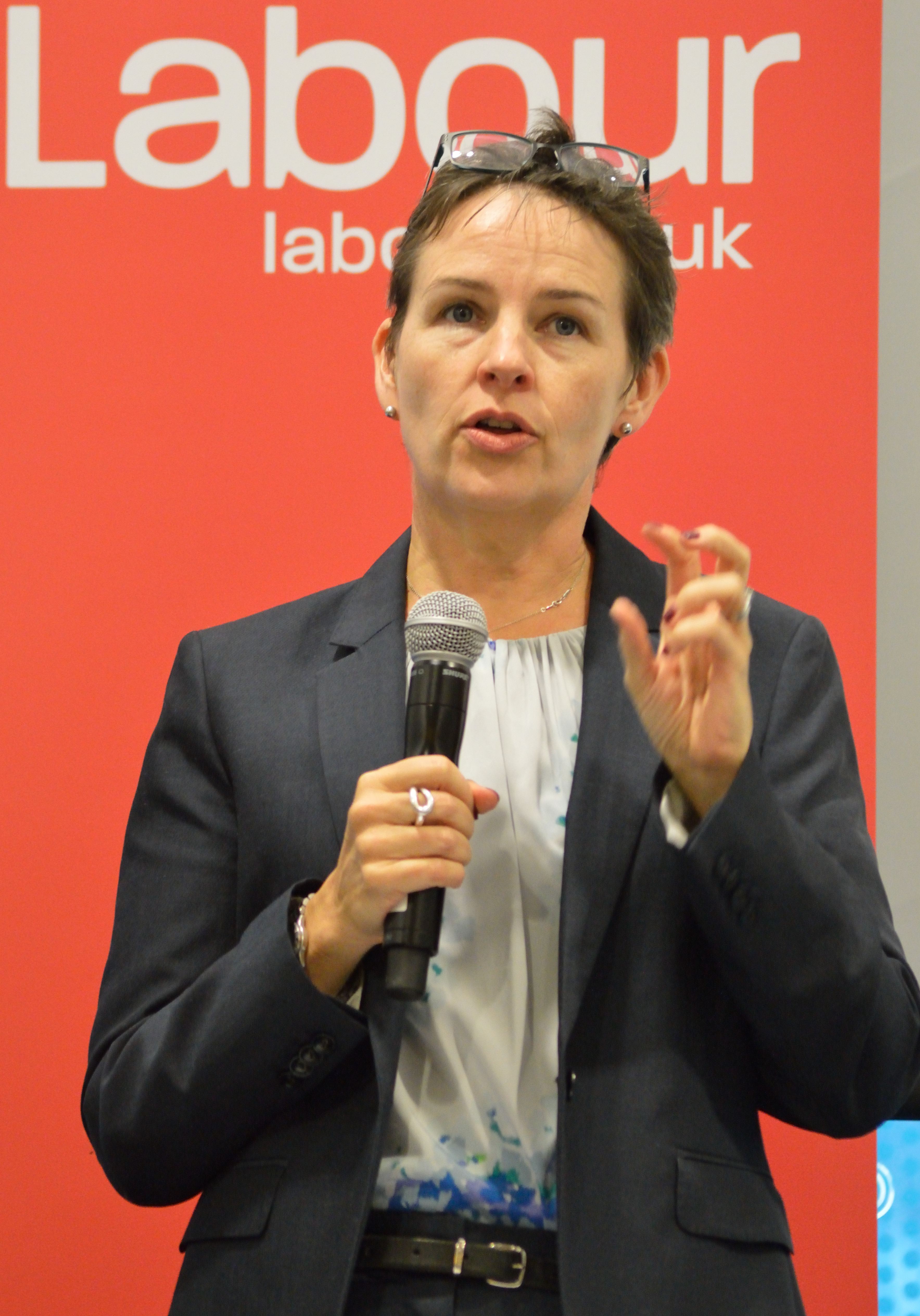 Mary Creagh at the 2016 Labour Party Conference in Liverpool, speaking at the Sustainability Hub Reception organised by the Socialist Environment and Resources Association (SERA).